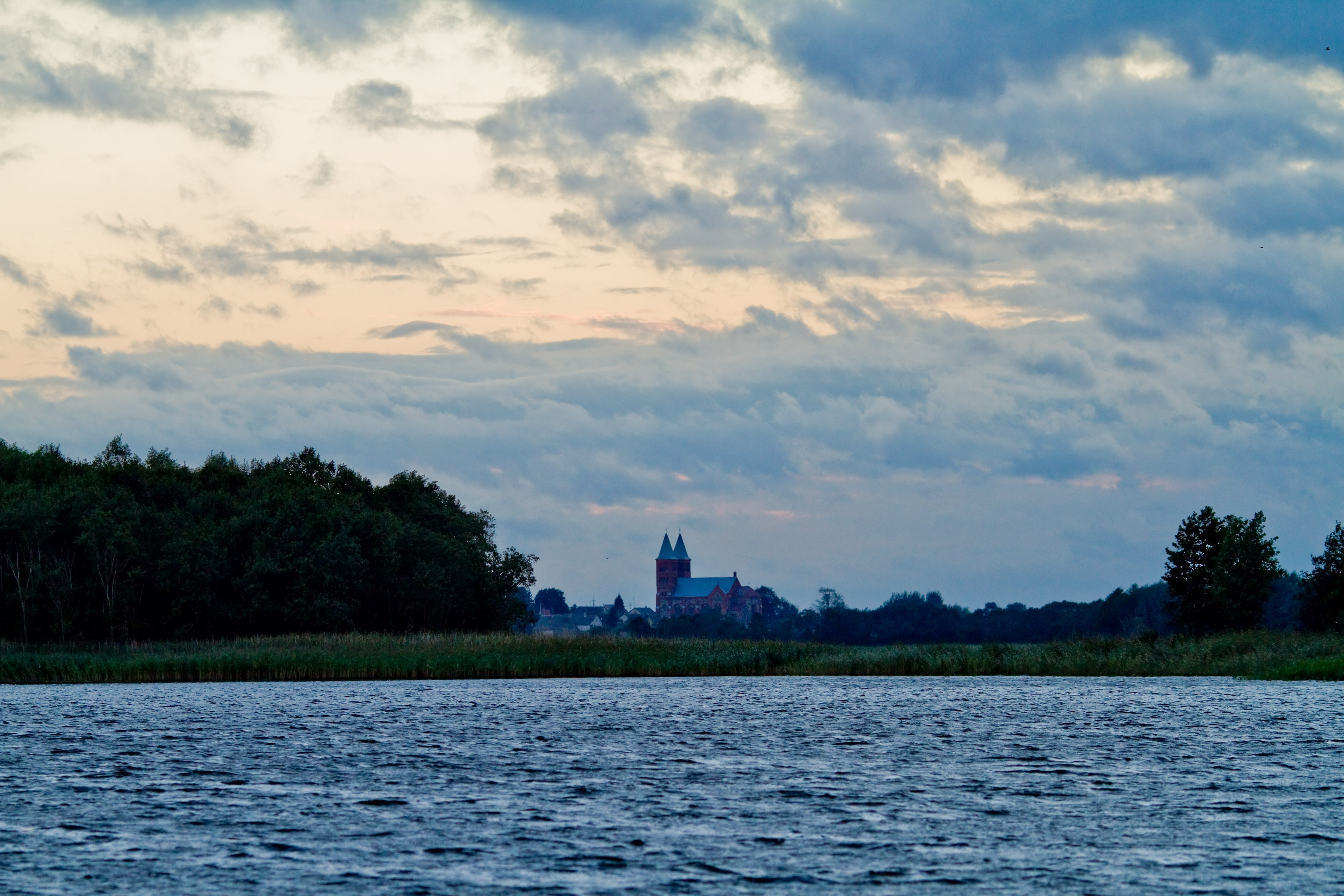 Ikaźń Lake. Brasłau district, Viciebsk province, Belarus.